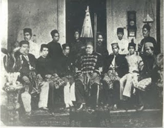 The 9th Yamtuan of Riau, taken 1858-1899